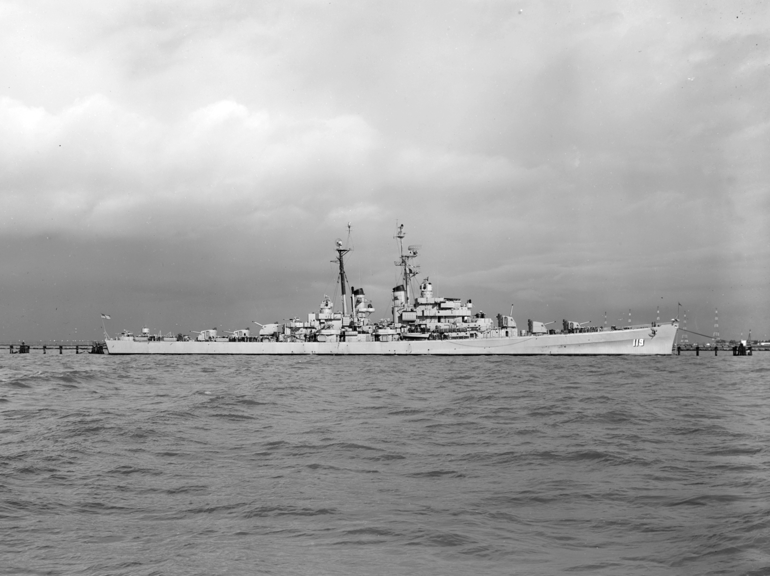 The U.S. Navy light cruiser USS Juneau (CL-119) in 1952, after her refit at the Long Beach Naval Shipyard, California (USA).